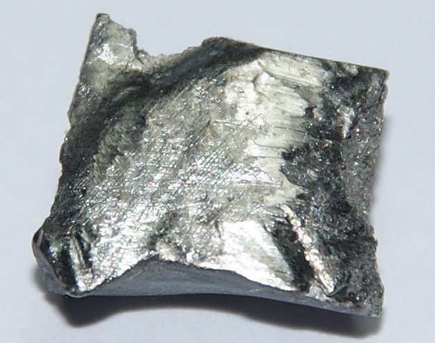 Pure terbium, 3 grams. Original size: 1 cm